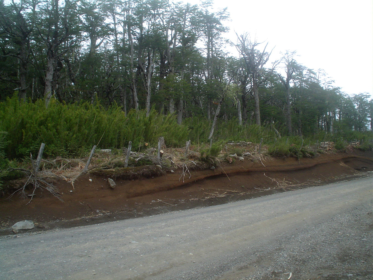 Road through the Valdivian temperate rainforest in Villarrica National Park, to the base of Villarrica Volcano.